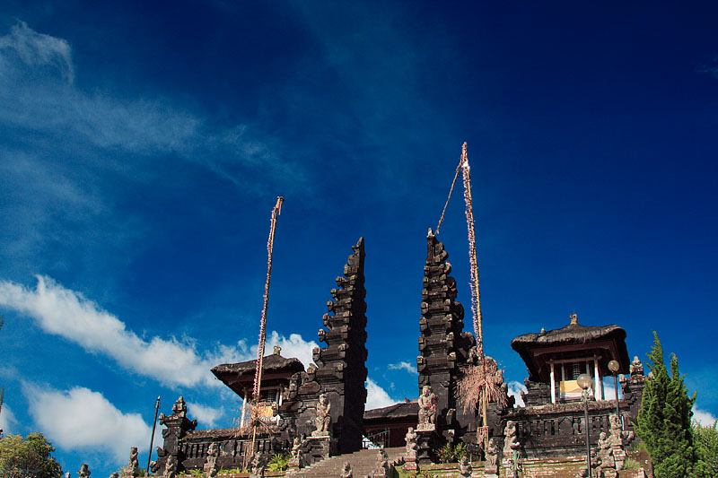 Mother Temple of Besakih. Taken by me during my travel to BaliBahasa Indonesia: Pura utama Besakih. Diambil saat perjalanan di Bali.